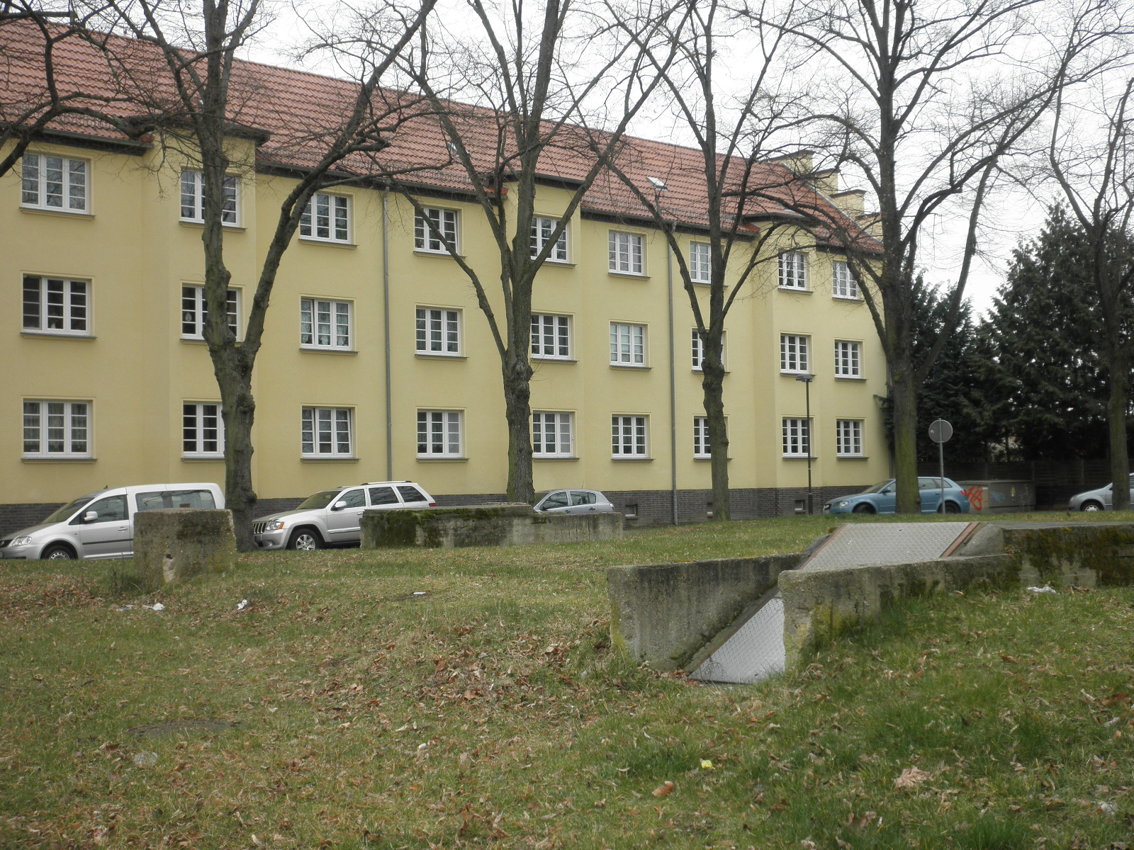 Shelter in Halle (Saale)